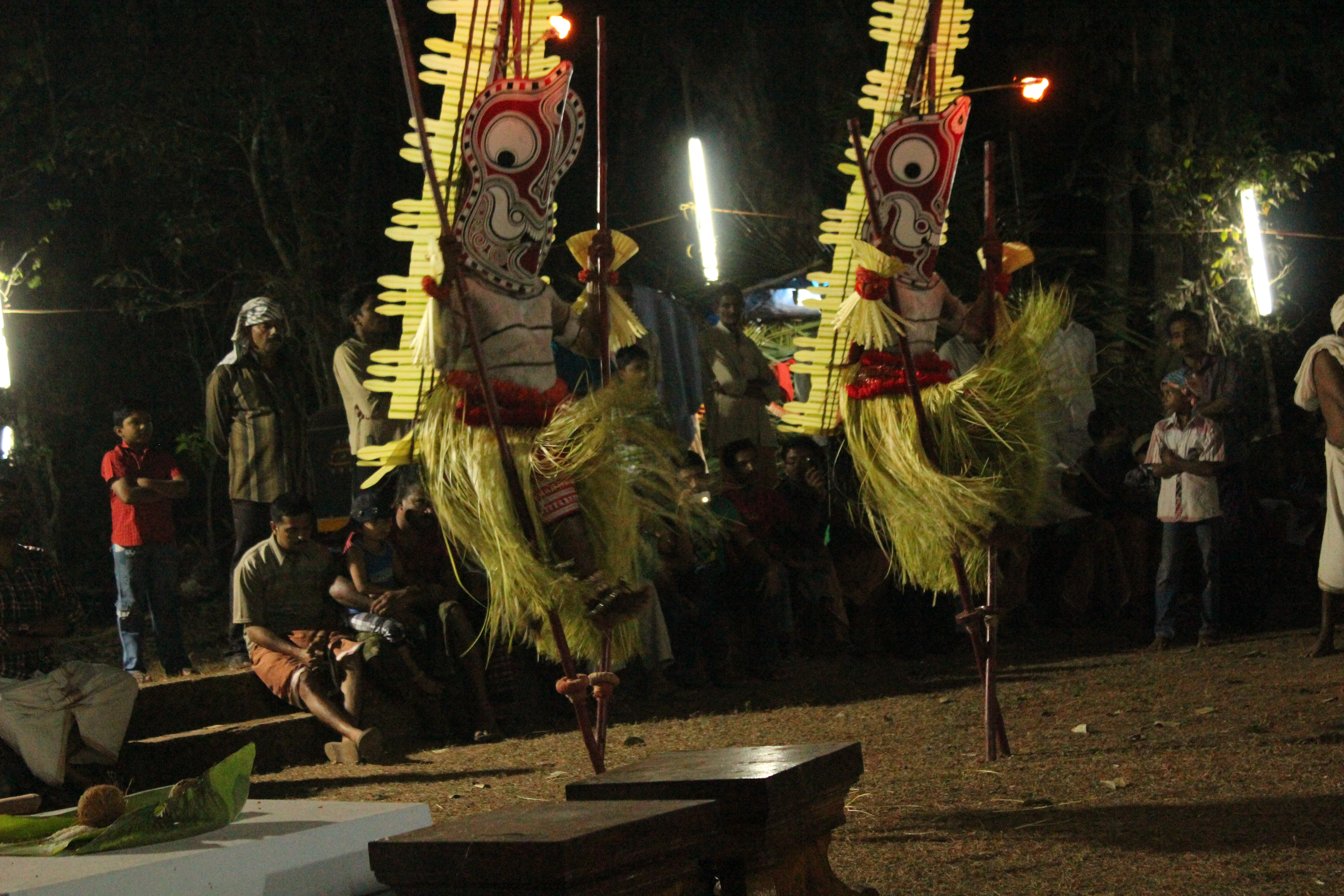 gulikan theyyam